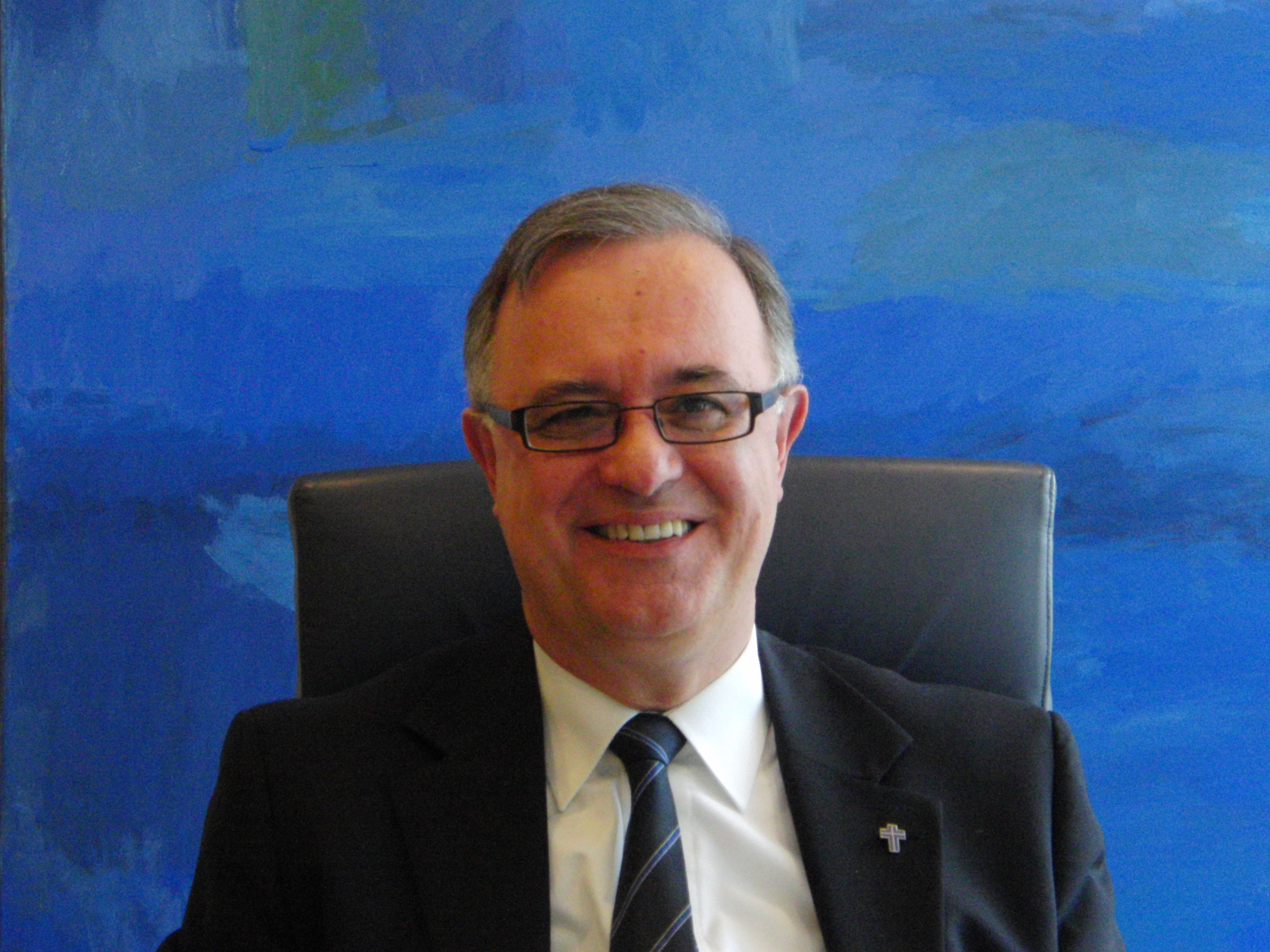 Dr. h.c. Frank Otfried July, Bishop of the Evangelical-Lutheran Church in Württemberg